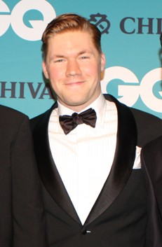 GQ Men of the year awards 2012